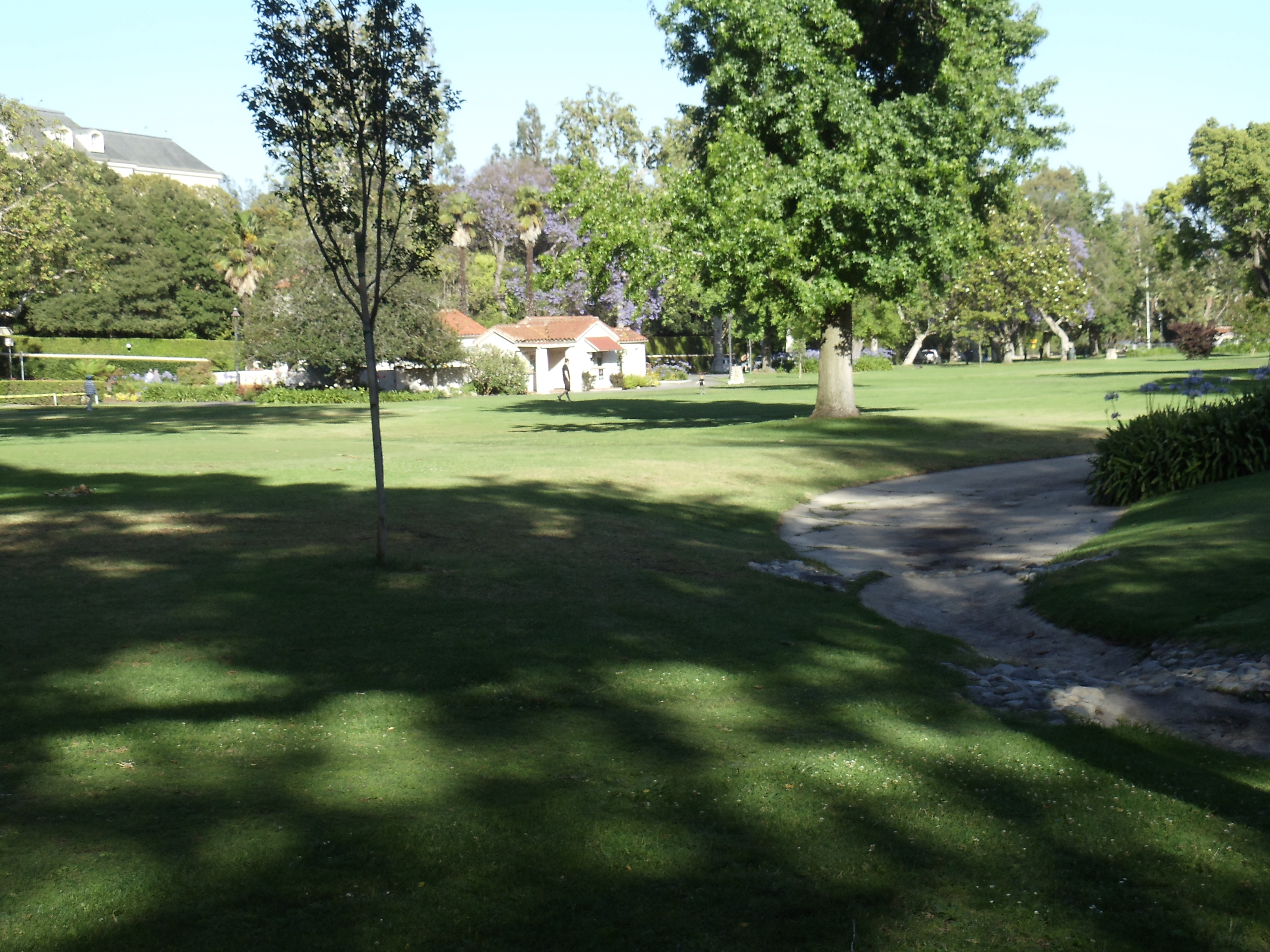 View of Holmby Park, Holmby Hills, Los Angeles, California